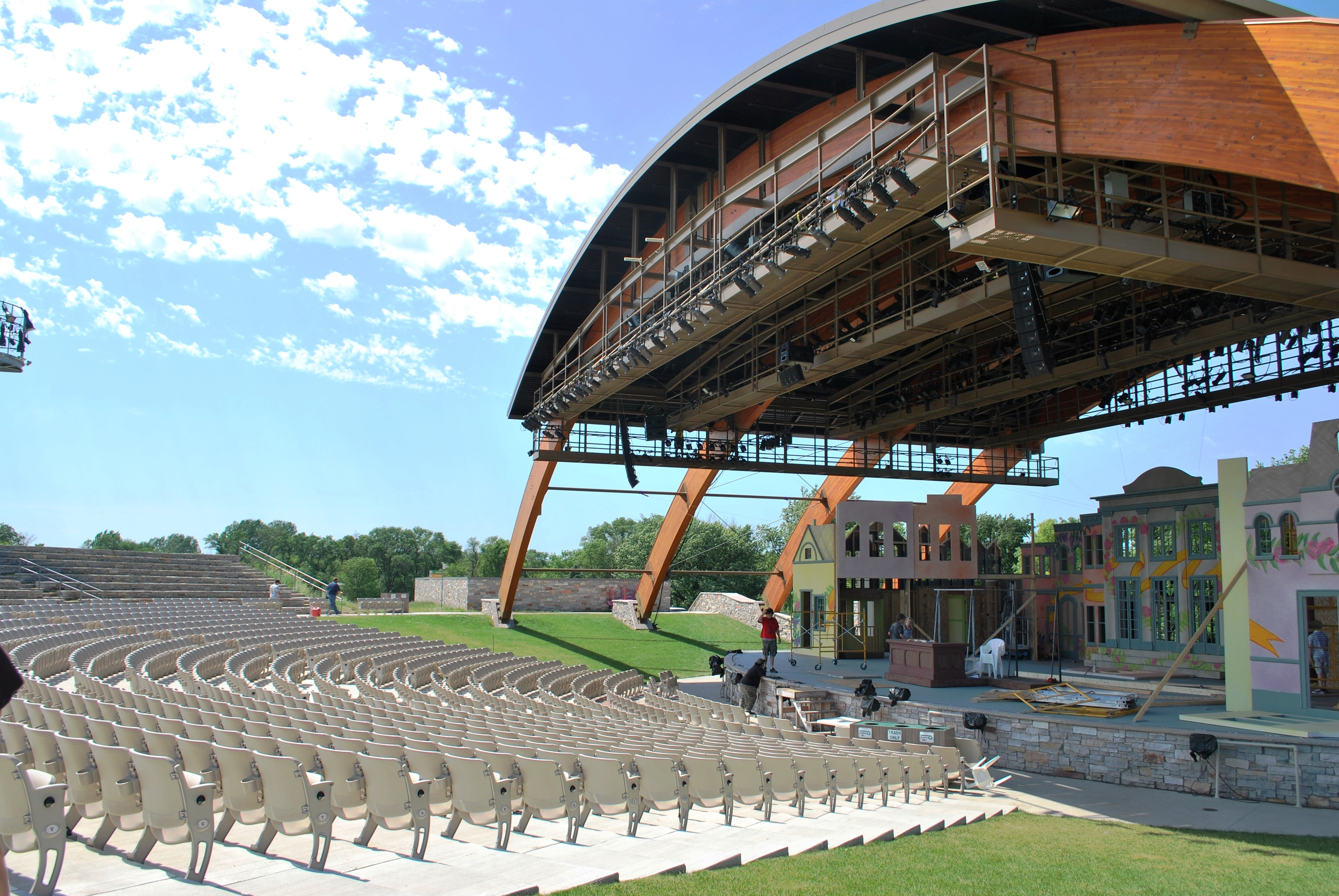 Amphitheatre of Bluestem Center for the Arts, in Moorhead, Minnesota, United States.